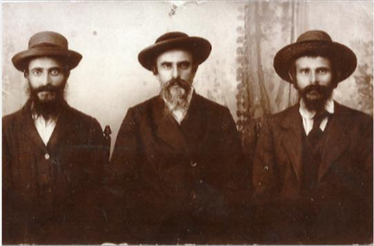 Eliyahu Weinstein (middle) First Ashkenazi 'Shochet' of Jaffa. Nachum Weinstein (left) First Moil of Tel-Aviv and one of Tel Aviv's founders, and Yisrael Weinstein (right) Teacher and one of Tel Aviv founders.